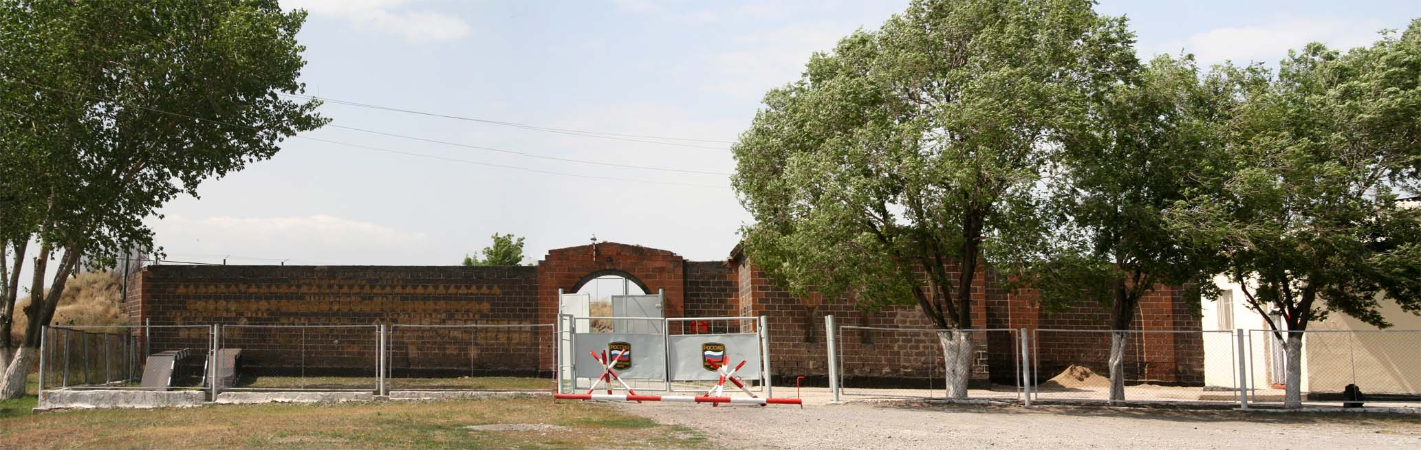 The Gate